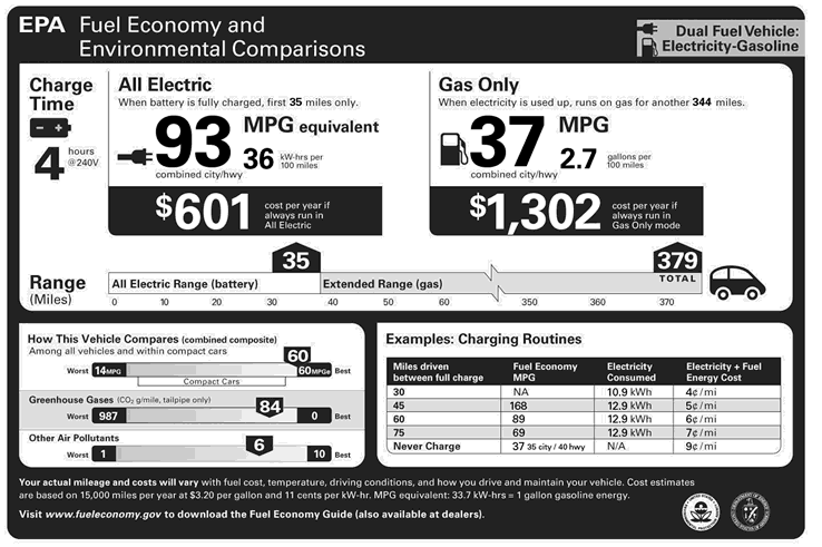 EPA fuel economy and environmental comparison label for the 2011 Chevrolet Volt (Dual fuel vehicle electricity-gasoline)